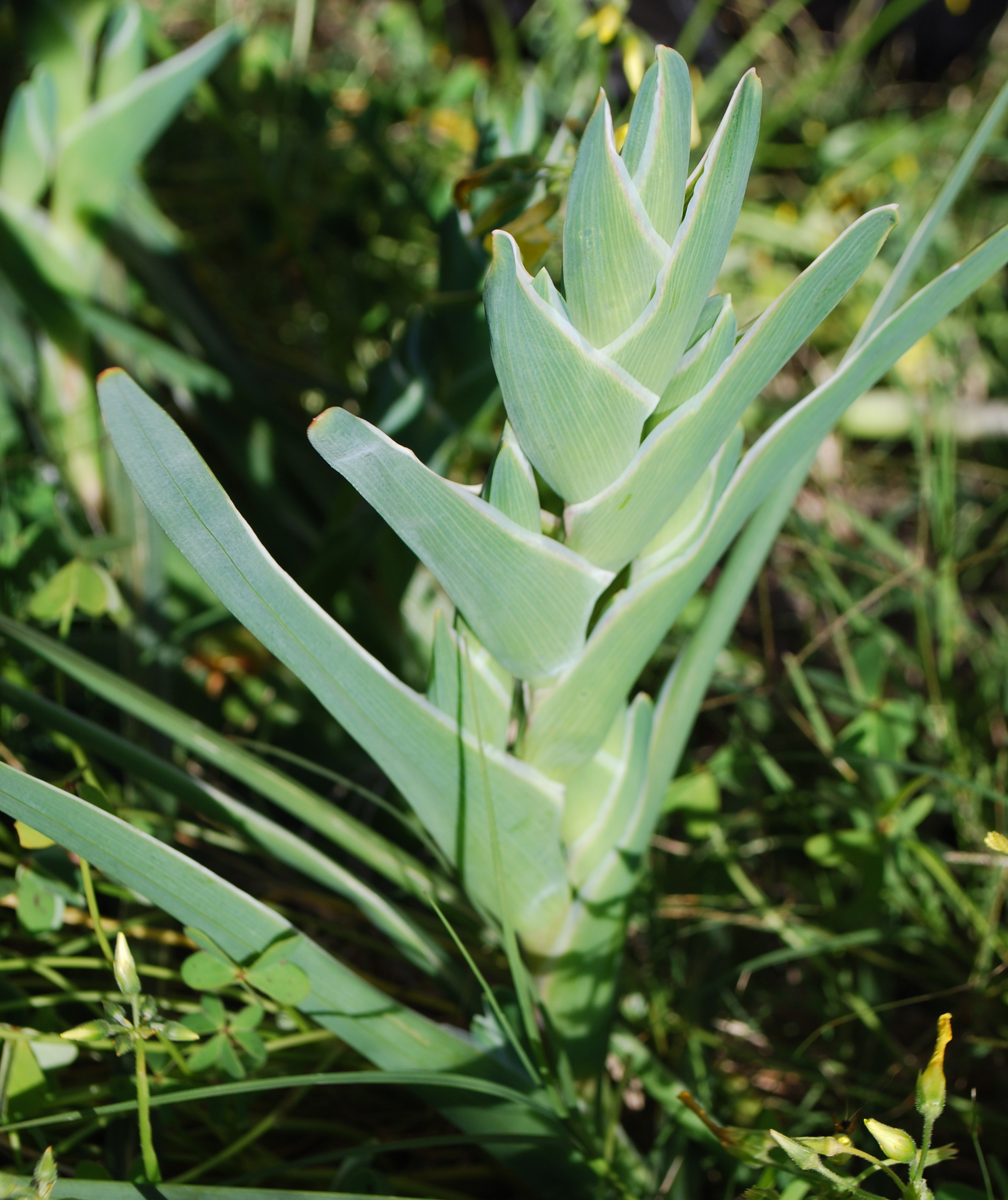 Ferraria crispa - noted as a weed in Australia